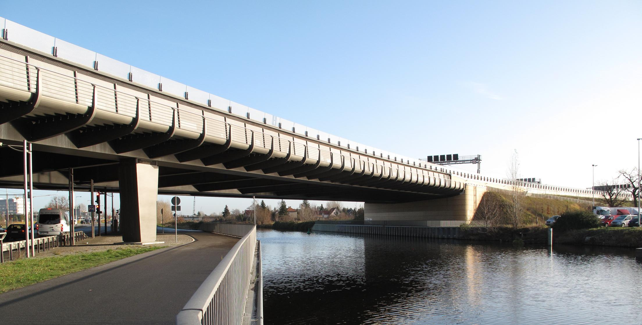 The nameless motorway bridge is a part of the Bundesautobahn 113 crossing the Teltowkanal (canal) in Berlin-Rudow and Berlin-Adlershof. The 149,30 m long steel bridge was built between 2002 and 2004. In the bridge there is integrated a foot- and bicycle-way.